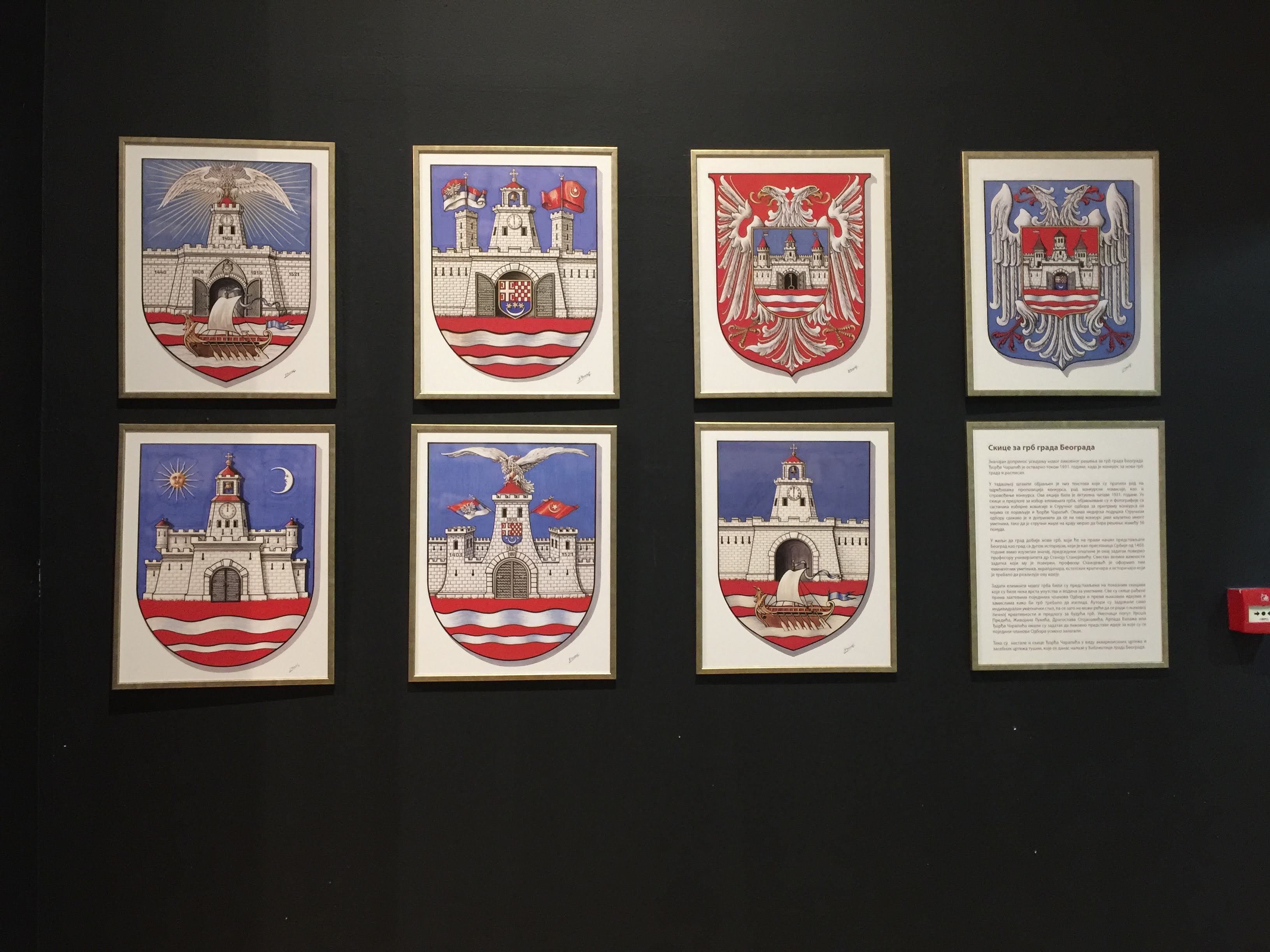 Đorđe Čarapić, Coat of Arms Belgrade (seven conceptual solutions) from 1931. Belgrade City Library